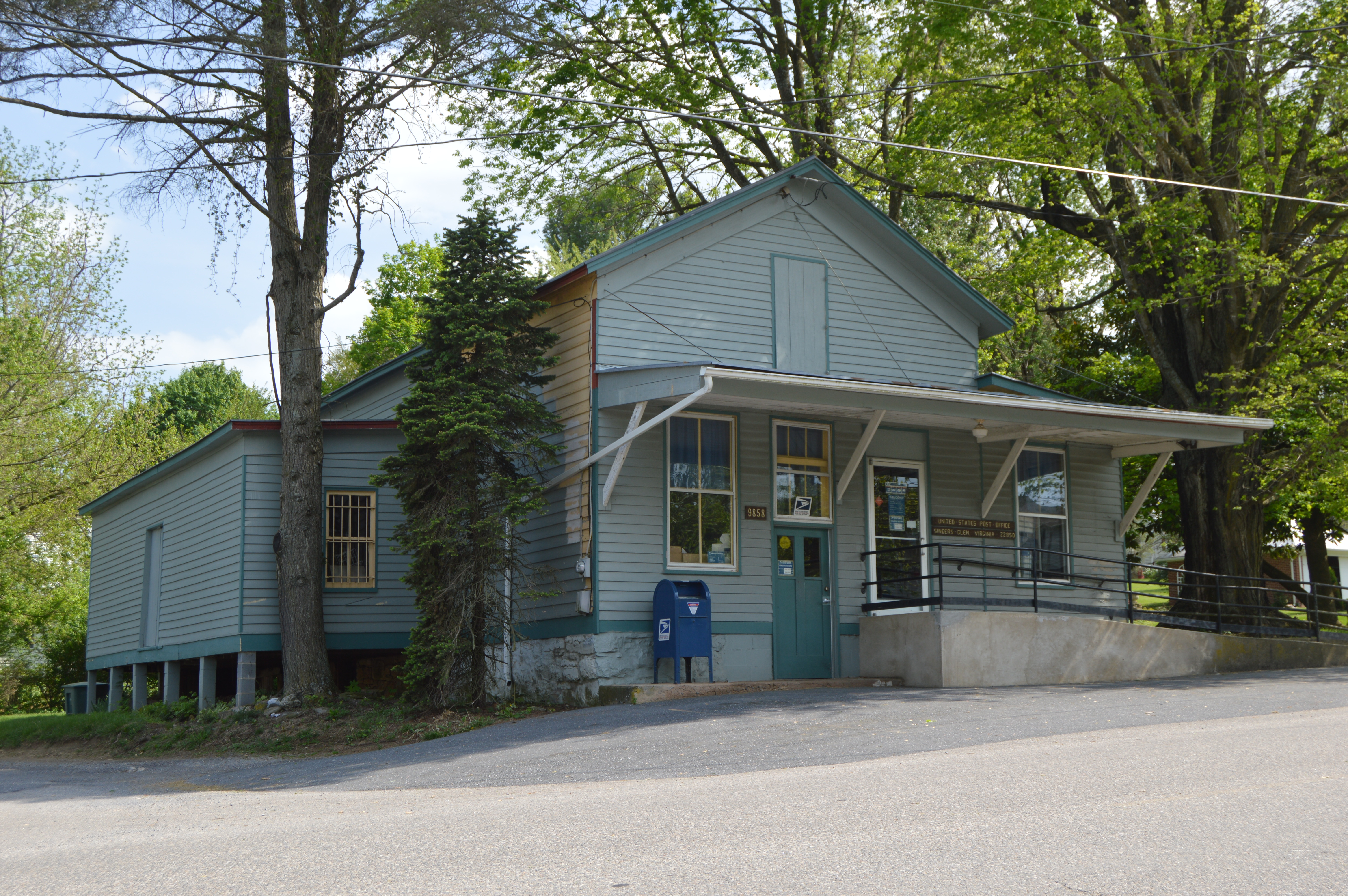 Front and eastern side of the Singers Glen post office, located at the intersection of Kiffer and Singers Glen Roads in Singers Glen, Virginia, United States. Built in 1890, it is part of the Singers Glen Historic District, a historic district that is listed on the National Register of Historic Places.